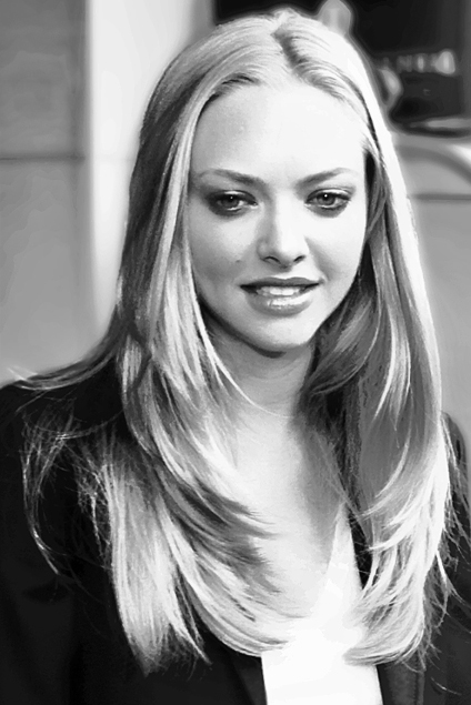 Amanda Seyfried at the 2009 Toronto International Film Festival.